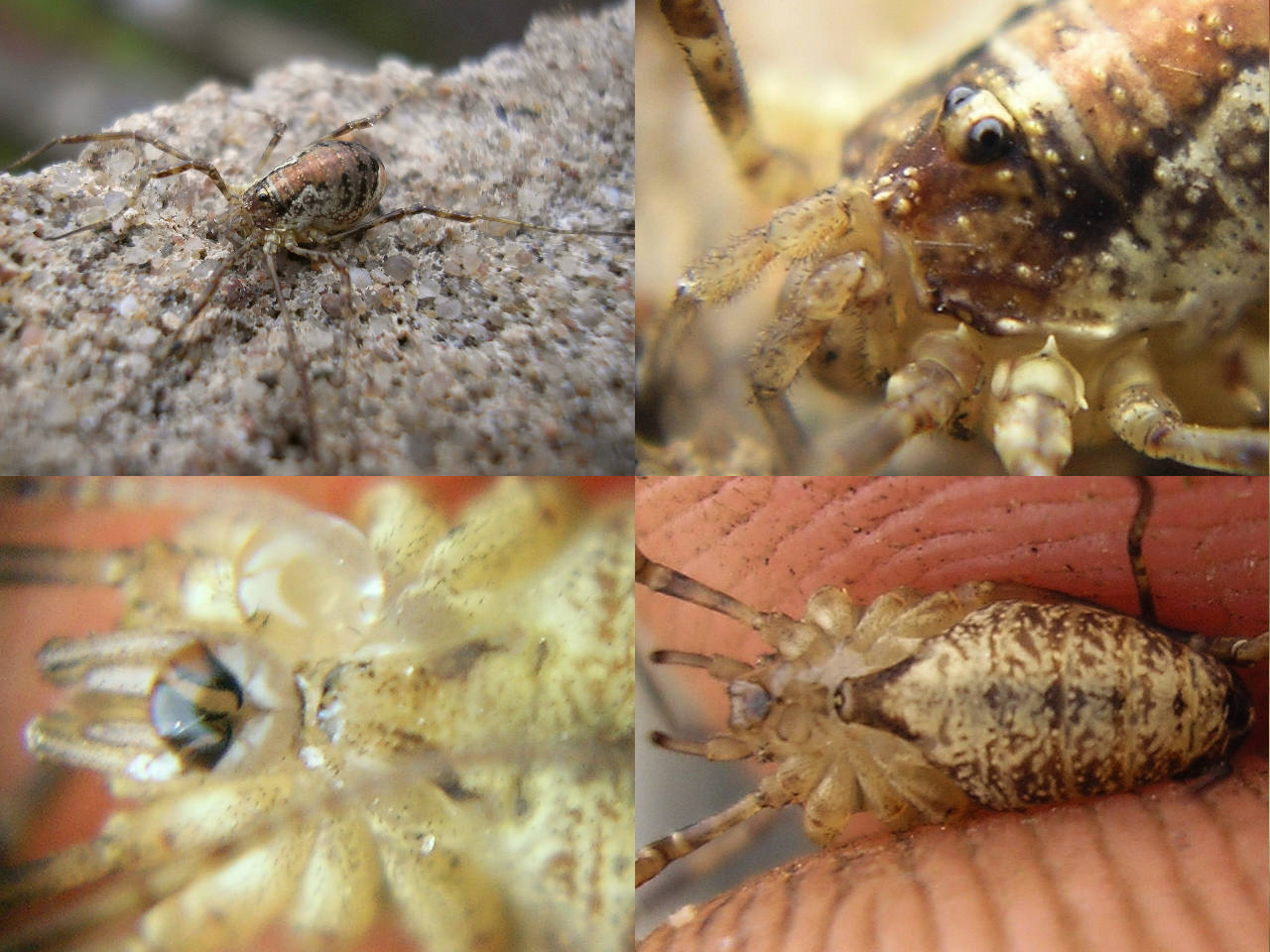 Female Harvestman of species Paroligolophus agrestis Location: Enschede, Netherlands Keywords: Opiliones, Harvestmen, Oligolophinae